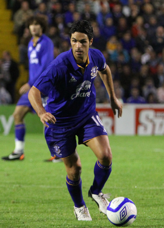 Mikel Arteta from Bohemians V Everton (39 of 51)